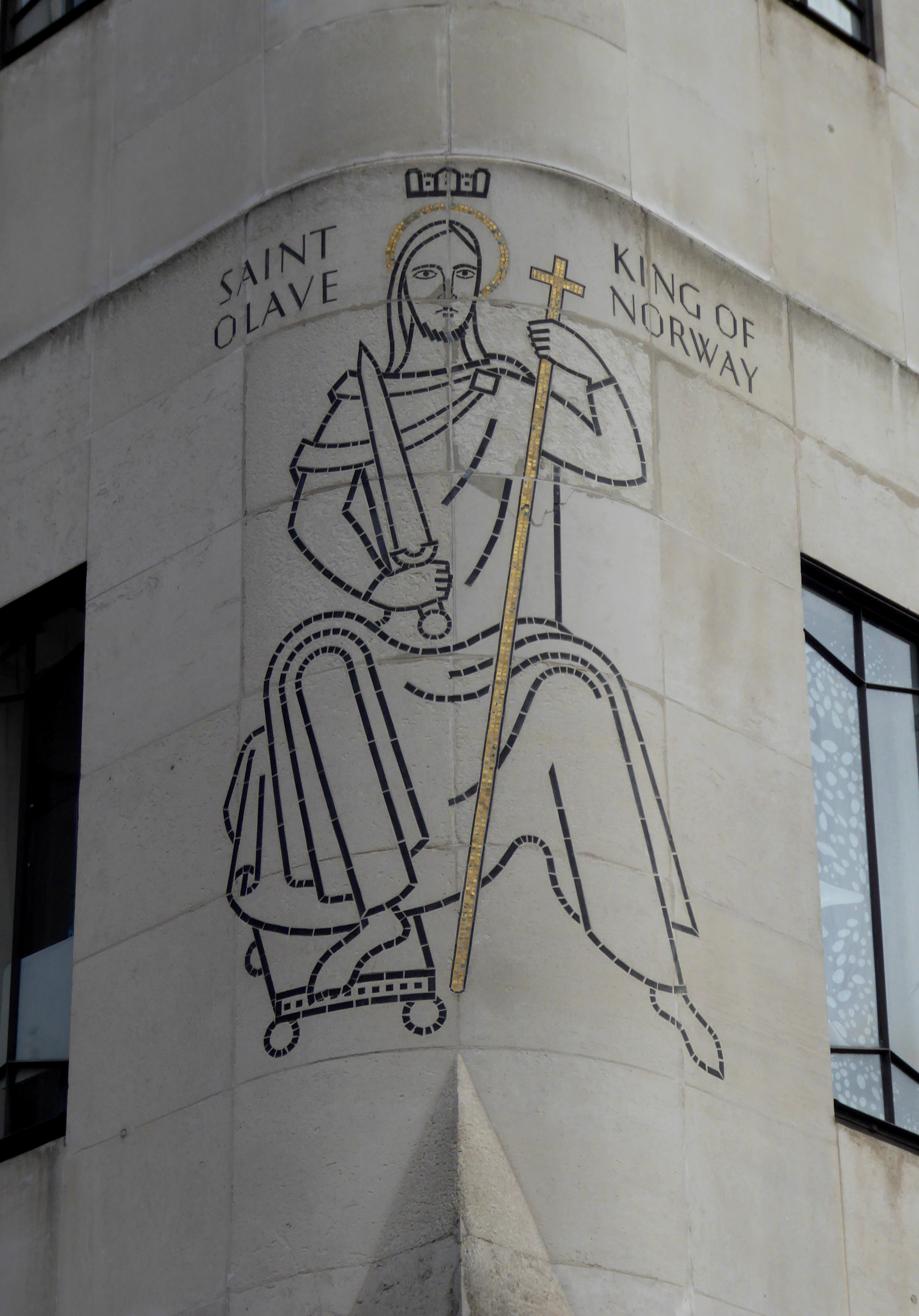 A depiction of St Olave on the corner side of St Olaf's House, just off Tooley Street.